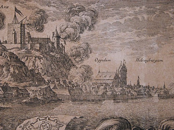 Print of Helsingborg from 1658 by Samuel Pufendorf (part of De rebus a Carolus Gustavo gestis.